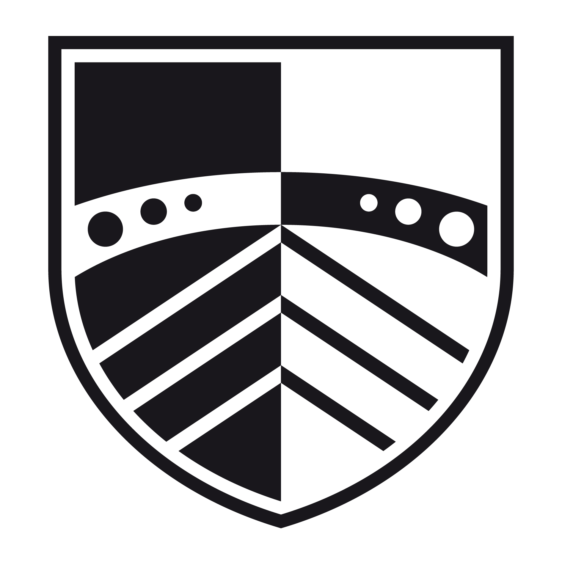 Stylized Pontypridd Rugby Football Club crest